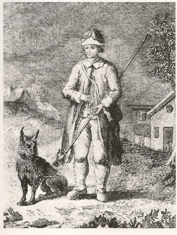 Picture of an old Berger Picard